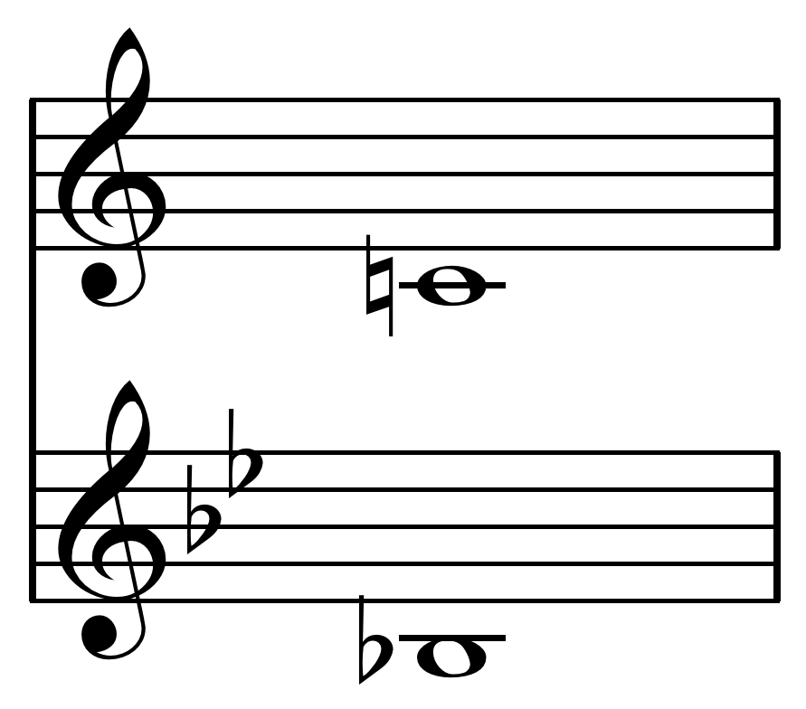 A written C, above, on a B♭ clarinet sounds a concert B♭, below.